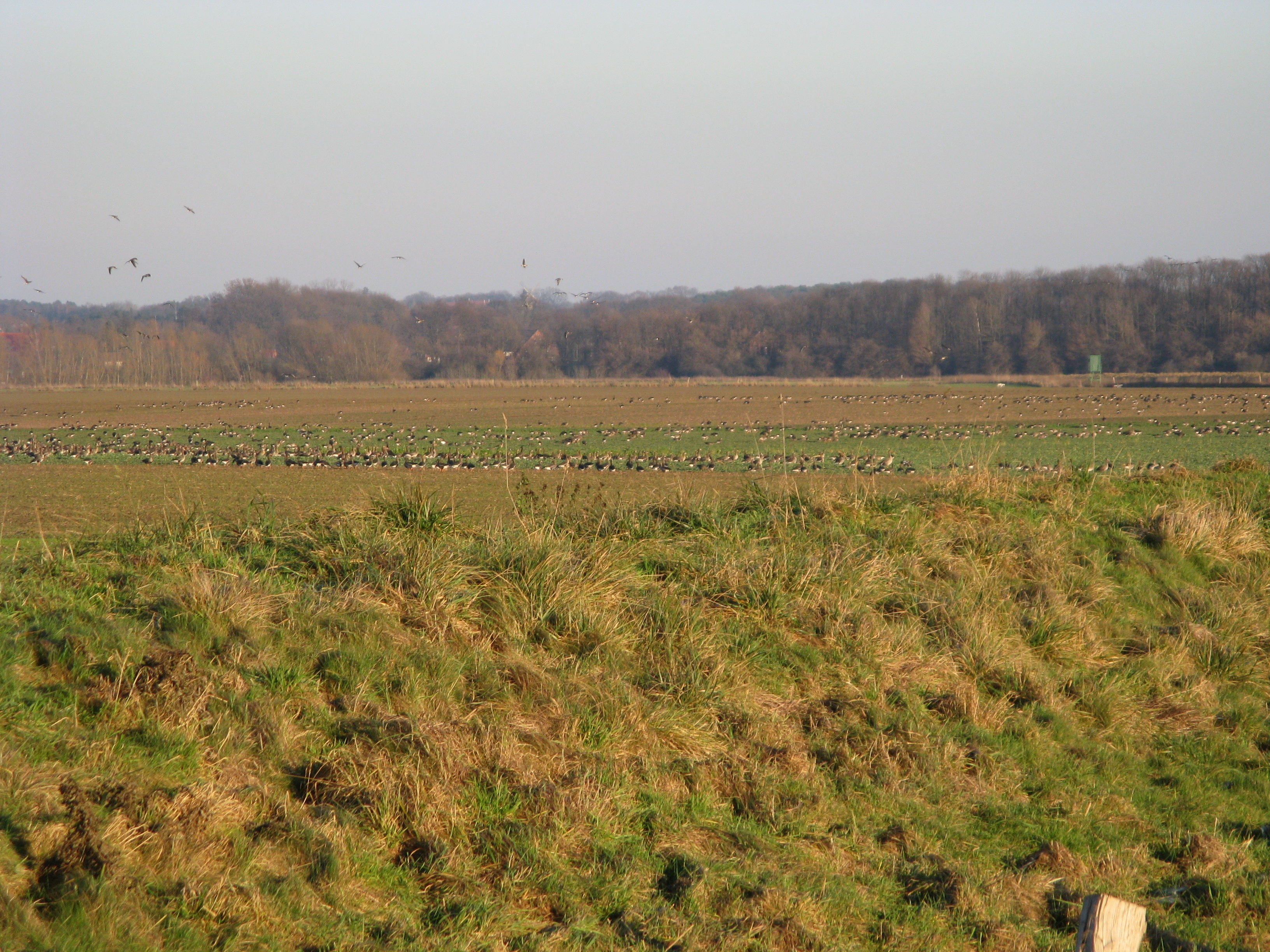 Geese near Weser River in Petershagen, Minden-Lübbecke, North Rhine-Westphalia, Germany.